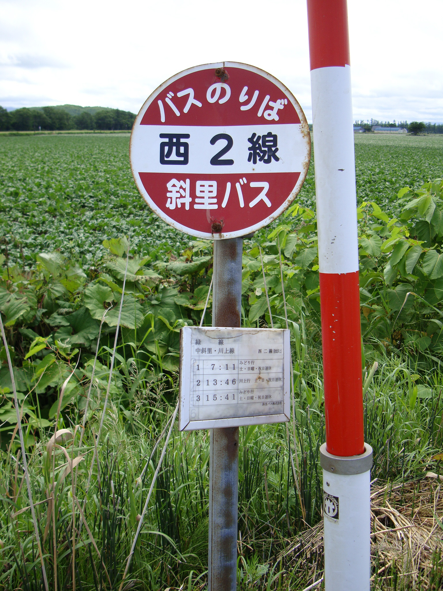 "Nishi-2sen" Bus stop. Minami-Shari Station.